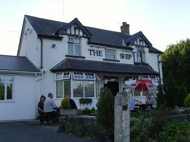 The Ship Inn Situated at the junction of roads to Efail Isaf, Llantwit Fardre, Creigiau and Rhiwsaeson.